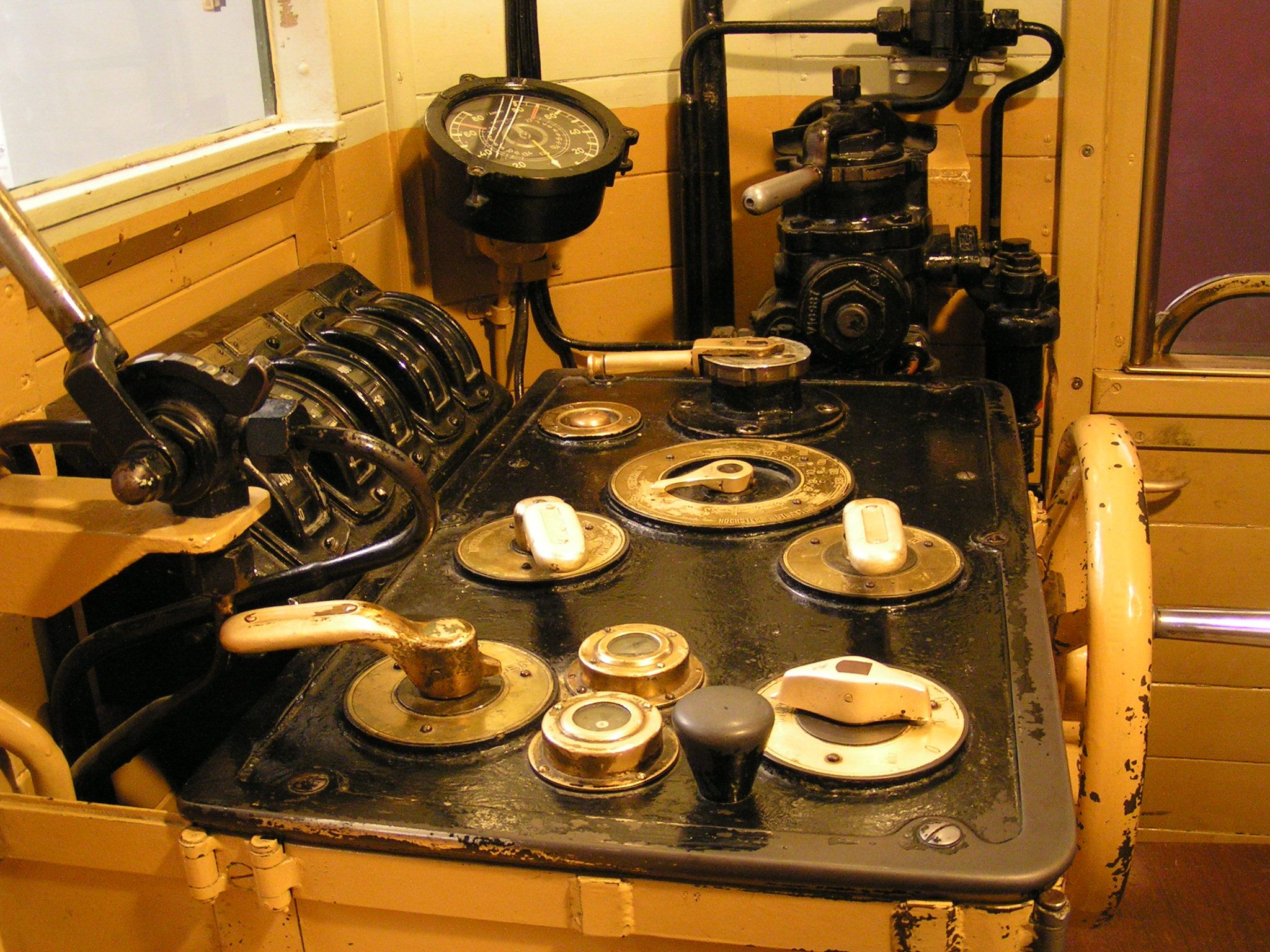 driver's cab of a historic class E 32 electric locomotive of former Deutsche Reichsbahn (Germany), at DB-Museum, Nuremberg, Germany